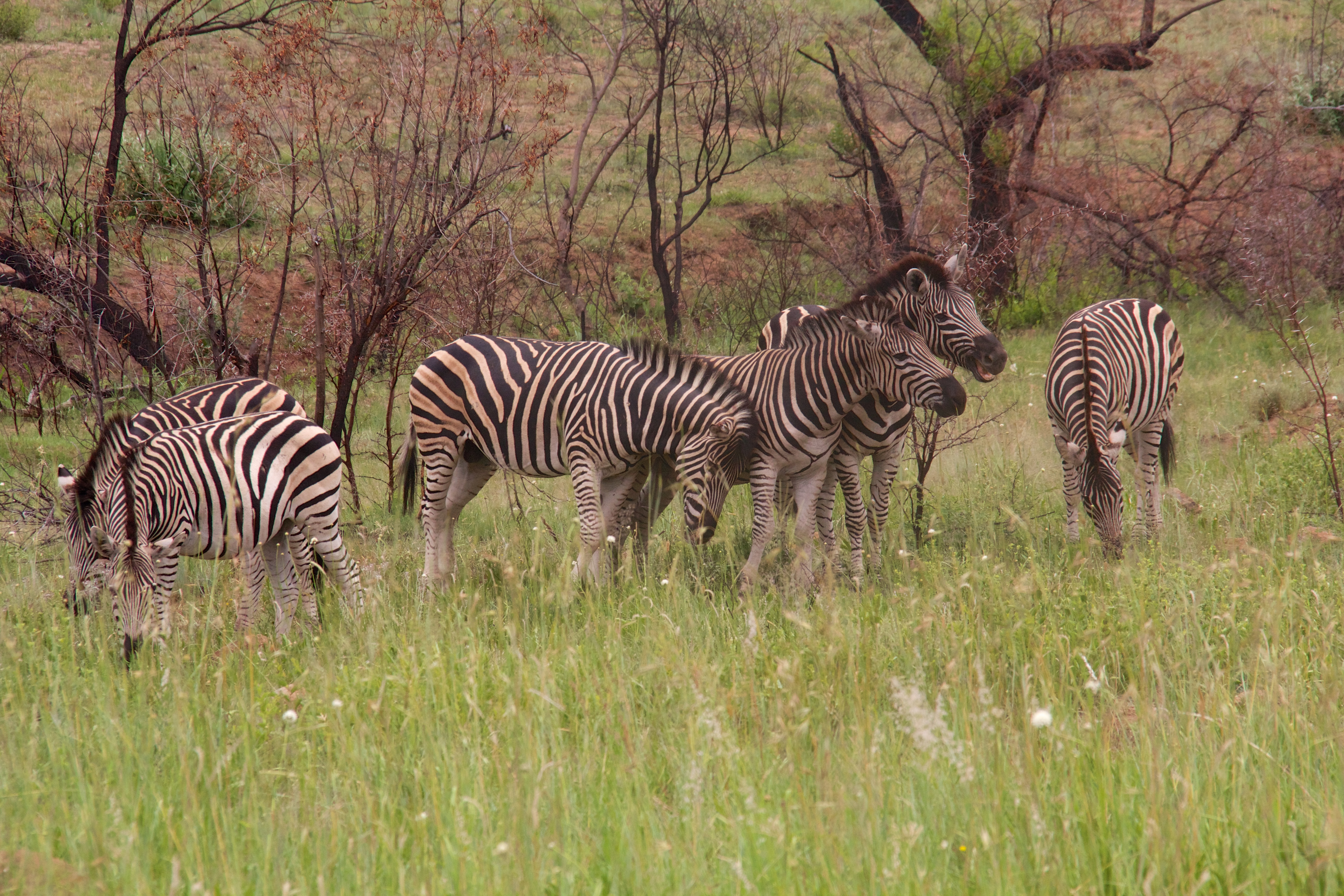 Zebra at Pilanesberg National Park.